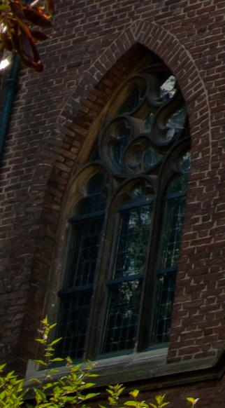 Window of St. Christophoruscathedral, Roermond, Netherlands